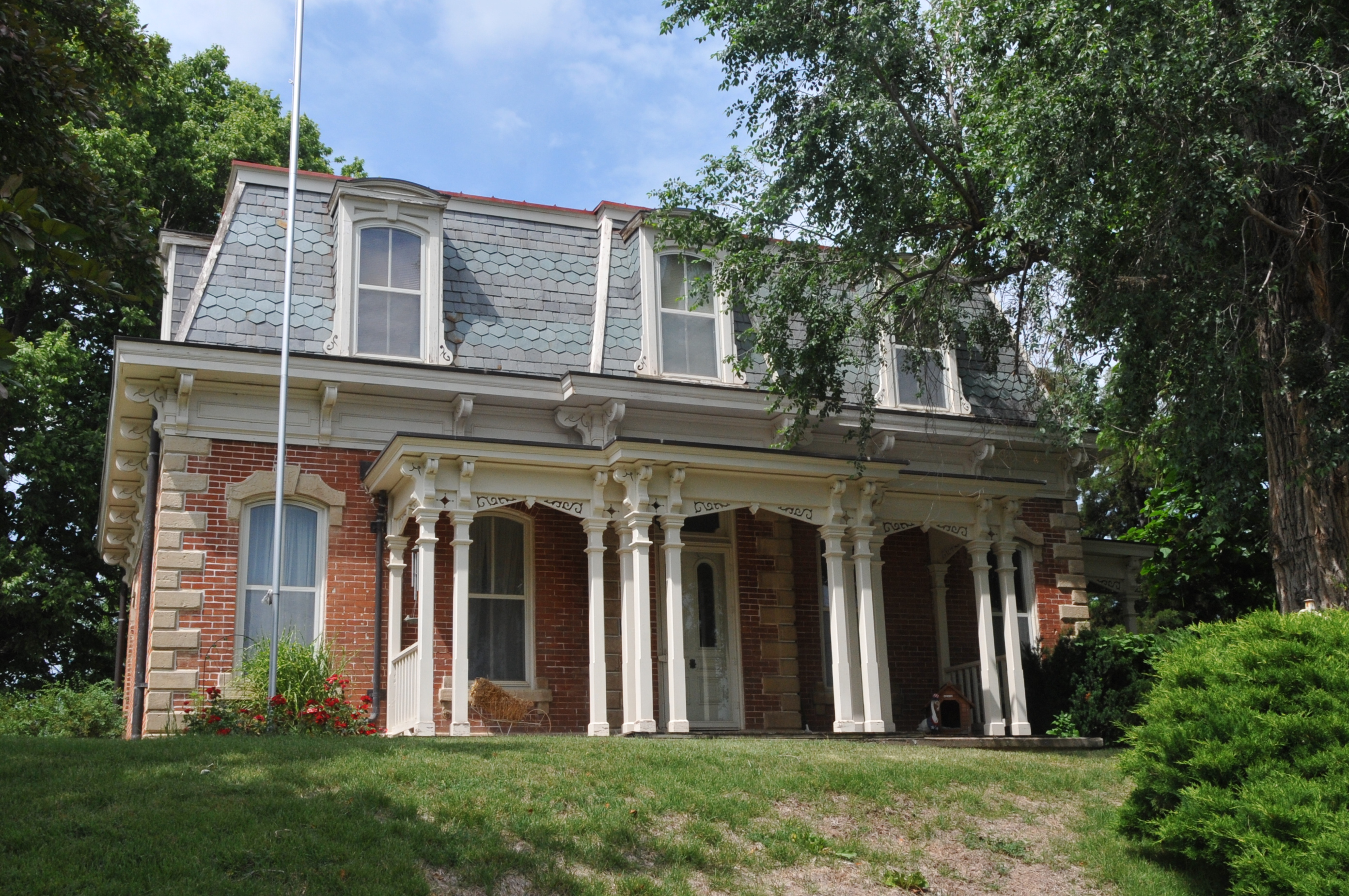 FRENCH SECOND EMPIRE VICTORIAN; 1876; DOPF WAS A NEWSPAPER PUBLISHER, REALTOR, AND BANKER. THE HOUSE BECAME APARTMENTS IN THE 1930’S WITH DESTRUCTIVE RESULTS BUT IN 1979 IT WAS BOUGHT BY A N ARCHITECT WHO AUTHENTICALLY RESTORED IT